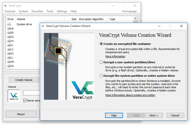 Screenshot of VeraCrypt 1.17